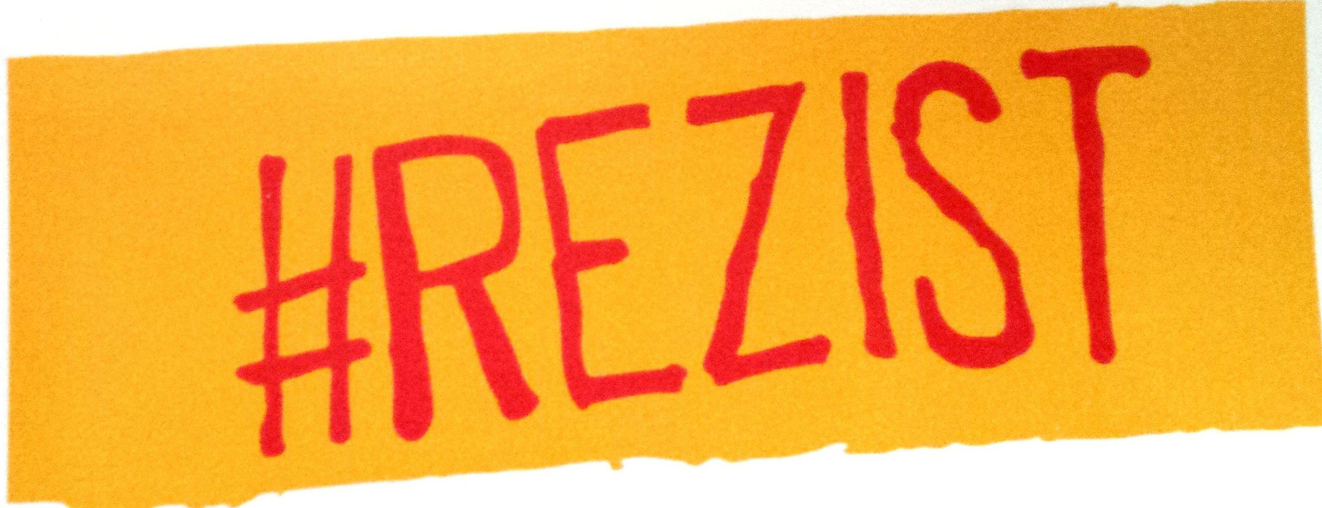 hashtag #rezist is the hashtag used by the protests that started in Romania after the government passed a decree that in short decriminalized government level corruption.